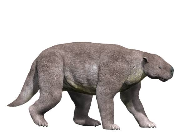 Life reconstruction of Barylambda faberi